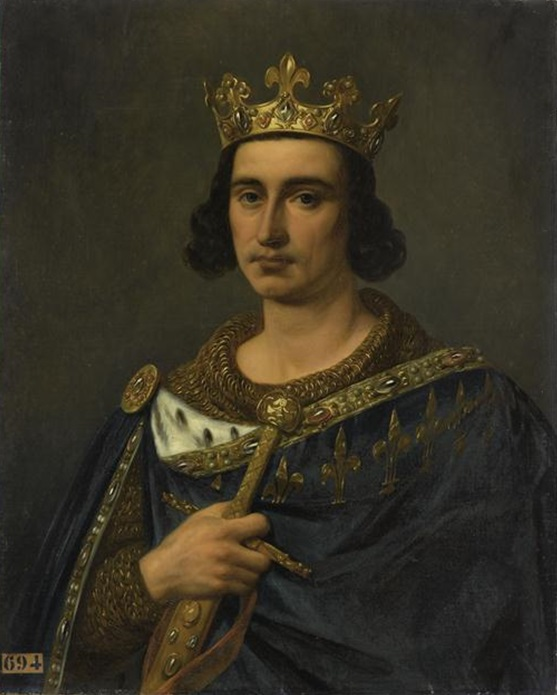 Portraits of Kings of France is a serie of portraits commissioned between 1837 and 1838 by Louis Philippe I and painted by various artists for the Musée historique de Versailles.